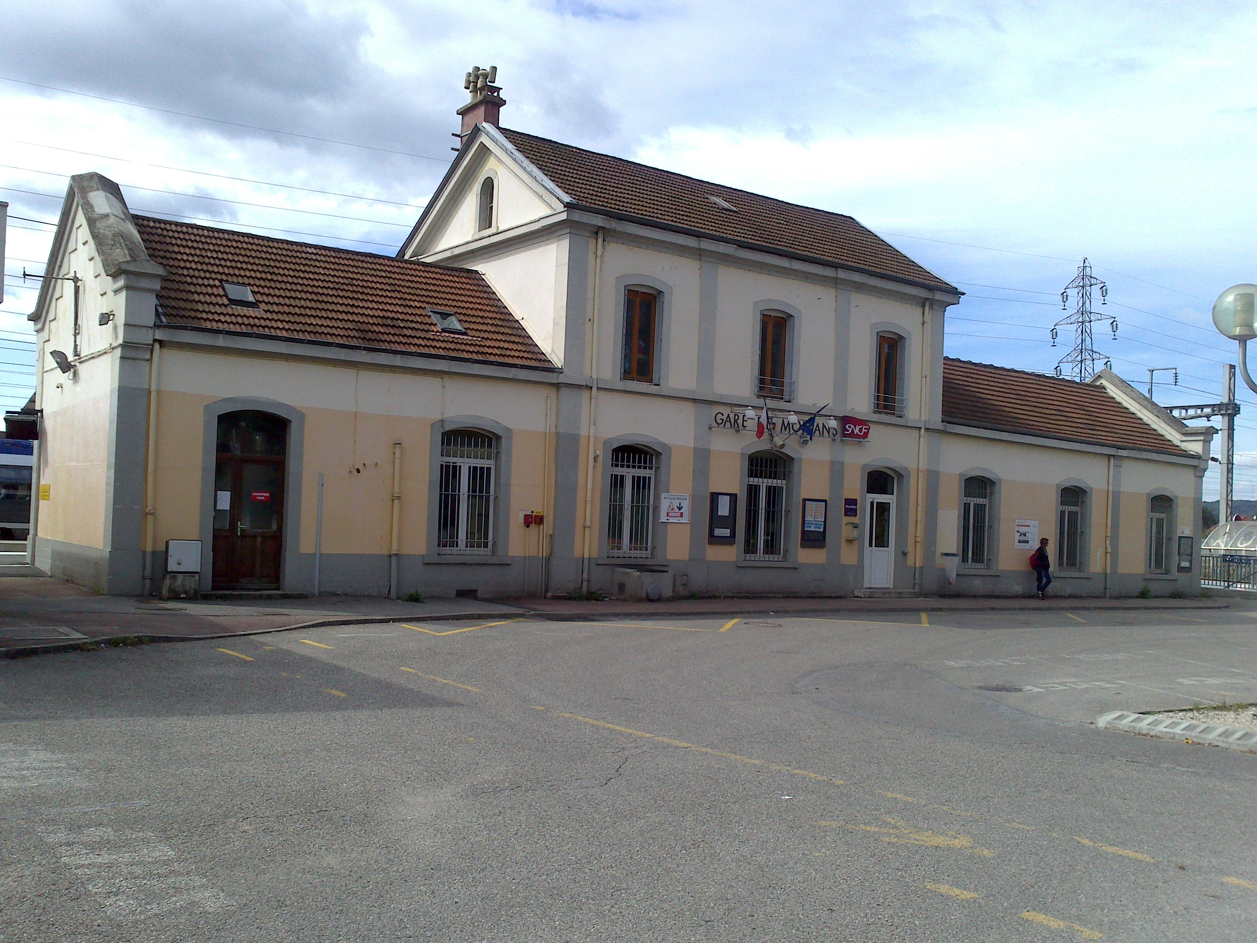 Front of Moirans railway station